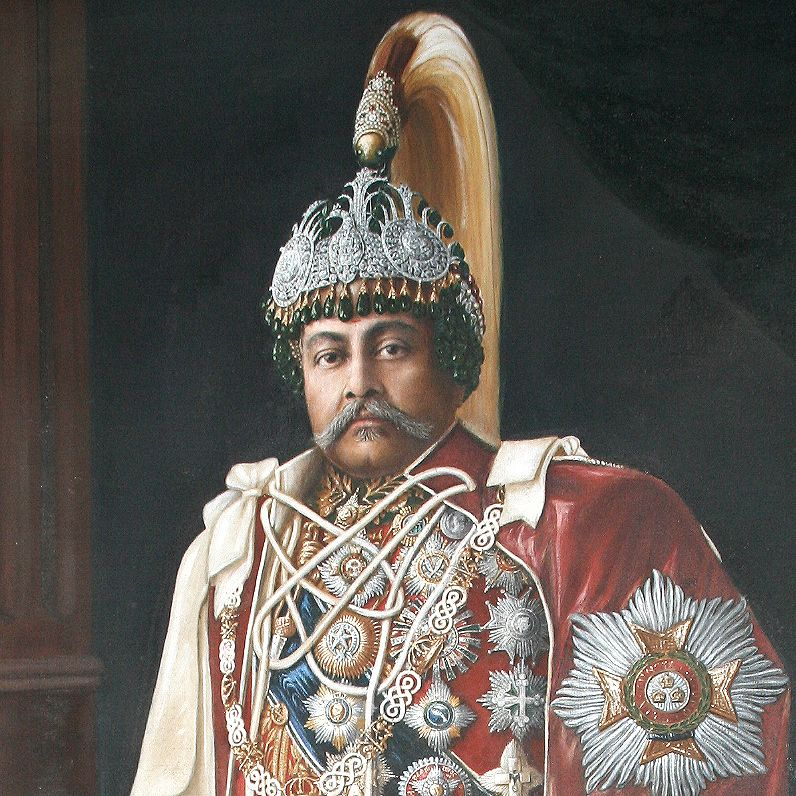 Juddha Shamsher Jang Bahadur Rana